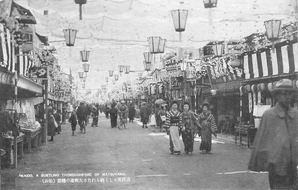 Okaido-street in Matsuyama, Ehime pref., Japan.